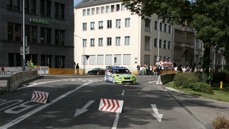 Marcus Gronholm, Circus Maximus, WRC 2007 Trier Germany.jpg